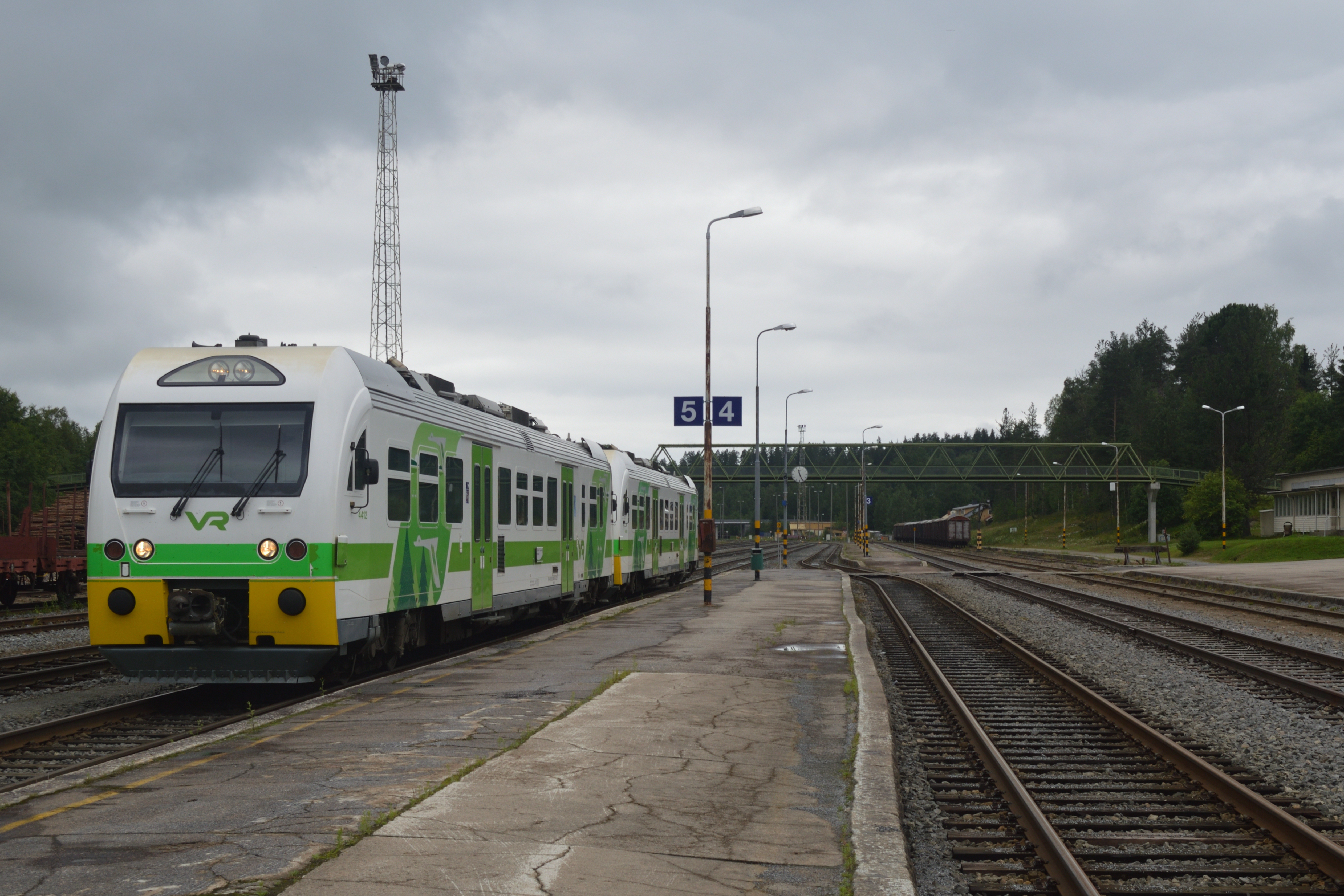 Dm12 4412+4404 seen during the 10 minute stop for reversal at Haapamäki on 9 July 2016. Train H423, 10:05 Tampere to Keuruu.